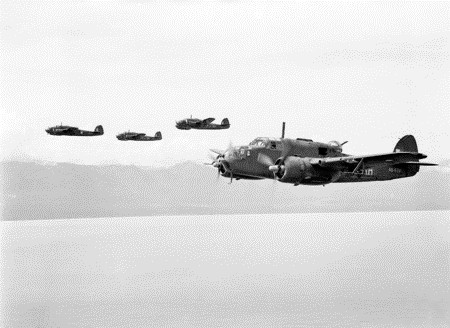 Wewak area, North New Guinea. 1945-01-20. Four Beaufort bomber aircraft of No. 100 Squadron RAAF in flight head down the northern coast of New Guinea with bombs for Japanese installations at Wewak. They are doing consistently valuable work, co-operating closely with Australian troops in exterminating Japanese garrison forces. Aircraft in the foreground is coded QH-X, Serial No. A9-626. The aircraft at extreme left is A9-557 and is now in the Australian War Memorial's collection.